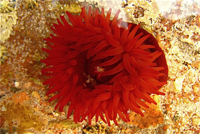 Aberdour Bay: Beadlet anemone in rock-pool Beadlet anemone Actinia equina with tentacles extended in a rock pool near to the high water mark on Aberdour Bay.